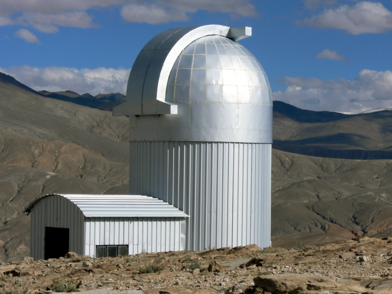 Hanle Observatory in Ladakh, India. This is world's highest observatory for optical and infra-red astronomy